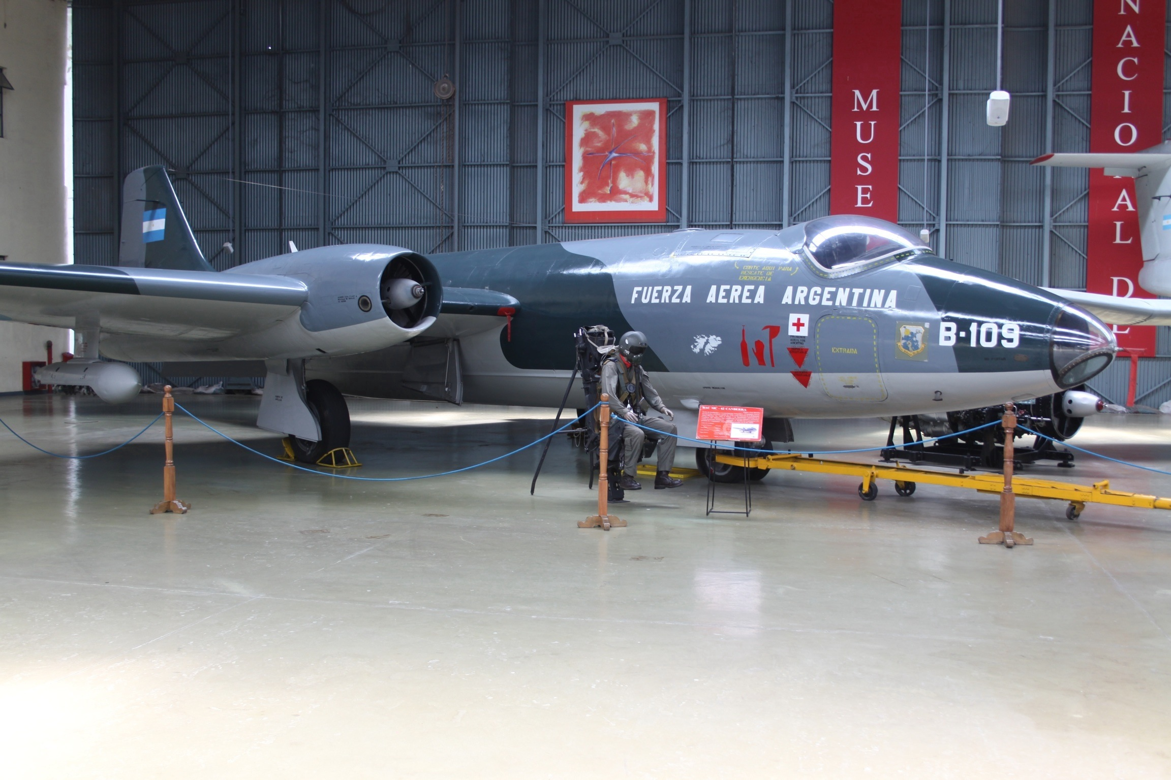 At Moron Museo Nactional De Aeronautica